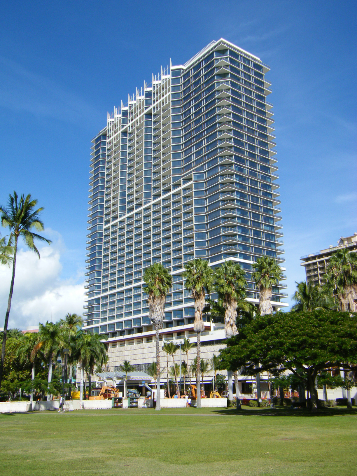 Trump Tower in Honolulu in September, 2009